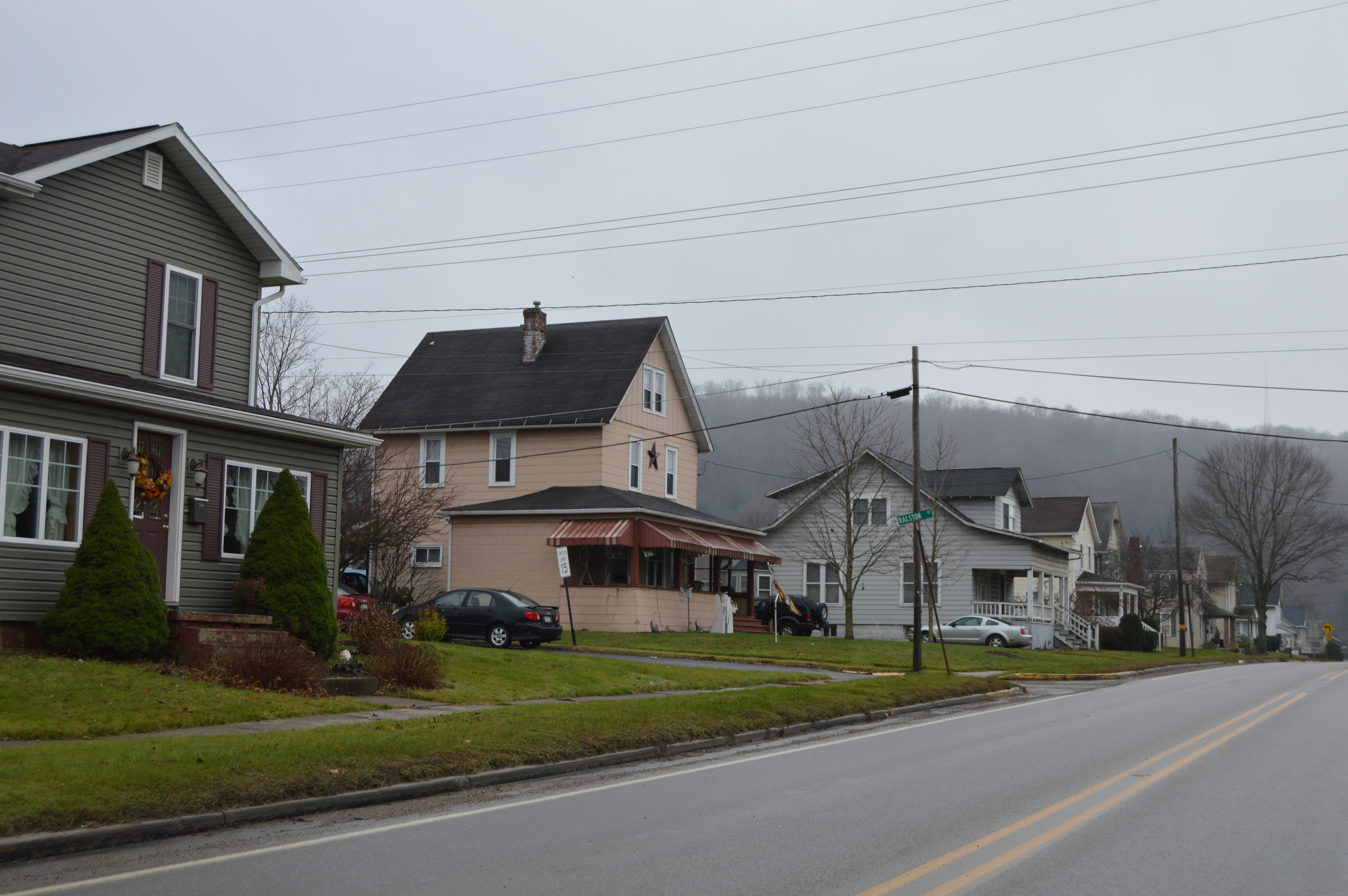 Houses on the southern side of Broad Street (Pennsylvania Route 28) at the Ralston Street intersection in South Bethlehem, Pennsylvania, United States.